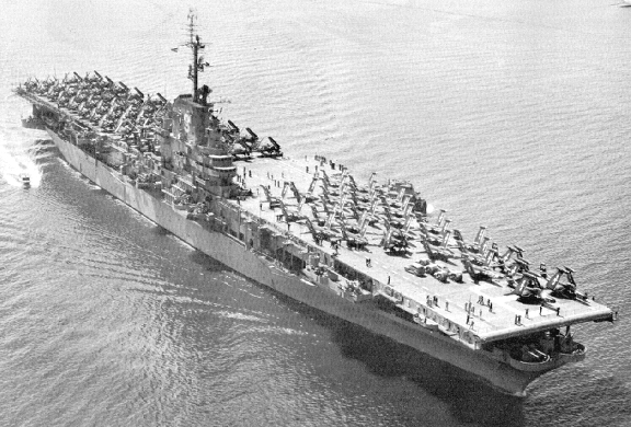 The U.S. Navy aircraft carrier USS Essex (CV-9) underway in the early 1950s.